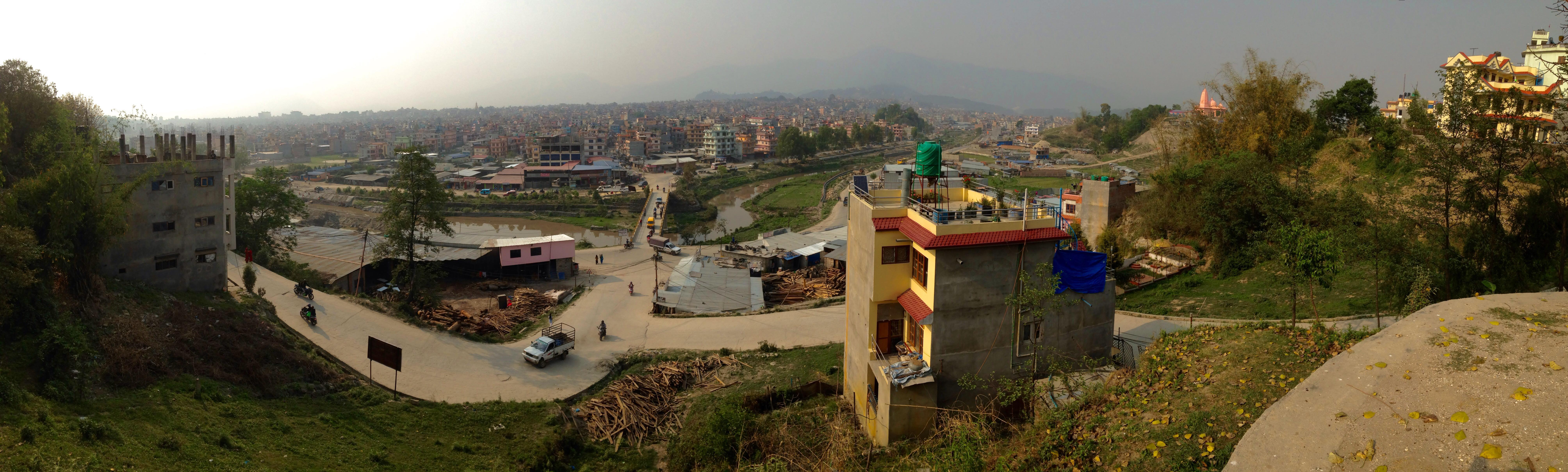 Naya Basti has been densely populated due to increasing number of migrants from various other parts of Nepal.